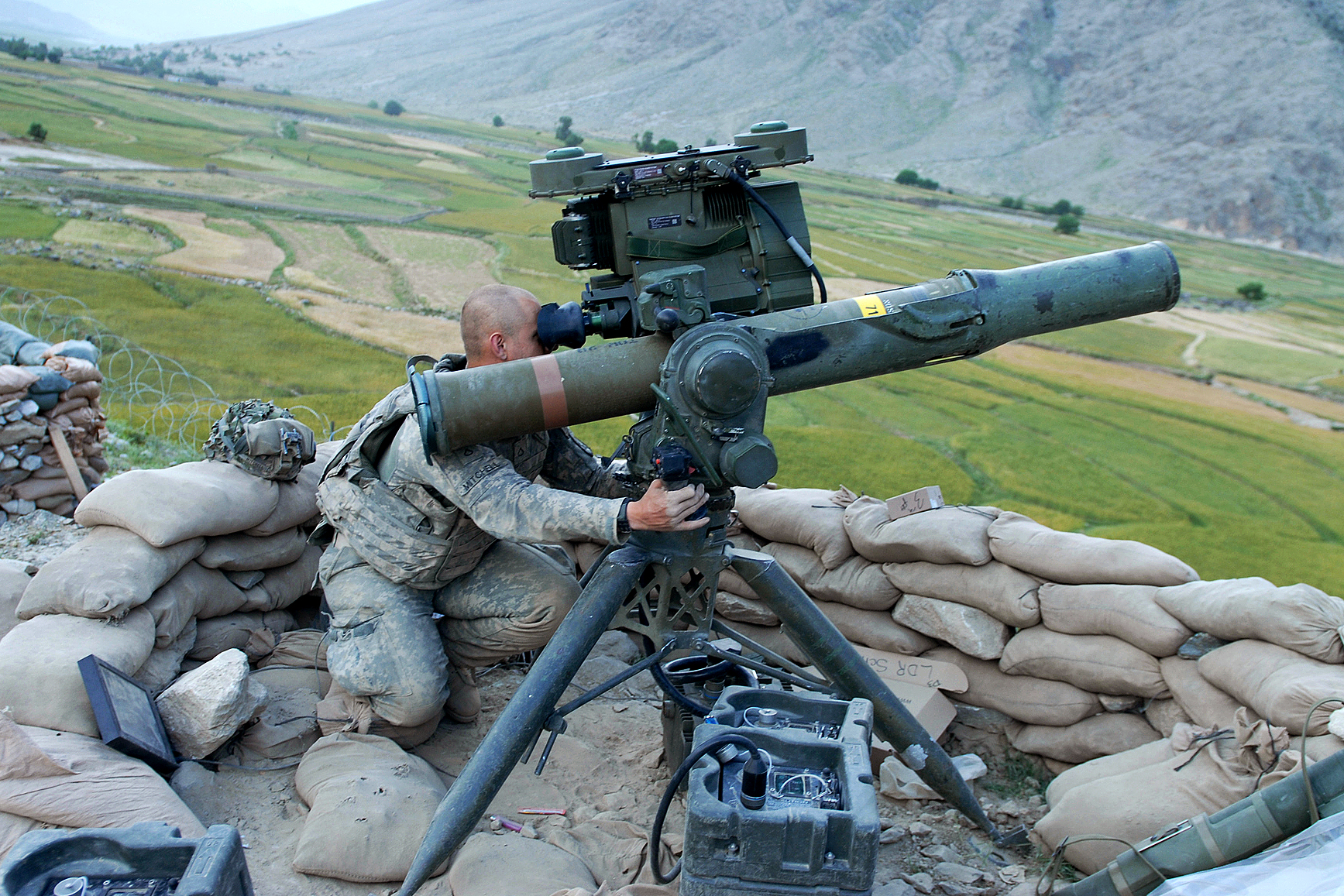 BGM-71 TOW, variant M220, SABER. U.S. Army PFC David Mitchell scans the landscape surrounding Vehicle Patrol Base Badel at the mouth of the Narang Valley in Konar province, Afghanistan, May 9, 2009. Mitchell is assigned to the 1st Battalion, 32nd Infantry Regiment. The base has closed down enemy activity in the valley and in Narang, Chowkay and Nurgal districts.